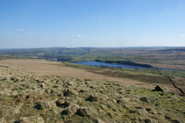 Baitings Dam Taken from top of Great Manshead Hill (417m)